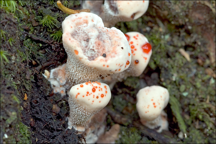 Hydnellum ferrugineum ((Fr.) P. Karst.) Location: Zadnja Trenta valley, East Julian Alps, Posocje, Slovenia EC Notes: Lat.: 46.39941 Long.: 13.7013Code: Bot_387/2009-5467Habitat: Mixed wood, predominantly Fagus sylvatica and Picea abies, in shade, protected from direct rain by tree canopies, calcareous ground, average precipitations ~3.000 mm/year, average temperature 6-8 deg C, elevation 990 m (3.250 feet), alpine phytogeographical region.Substratum: Decomposing tree litter and soil among roots of an old Picea abiesPlace: West side of Zadnja Trenta valley, south of ex Fjori farm house, East Julian Alps, PosoÄ%uFFFDje, Slovenia ECNikon D70 / Nikkor Micro 105mm/f2.8